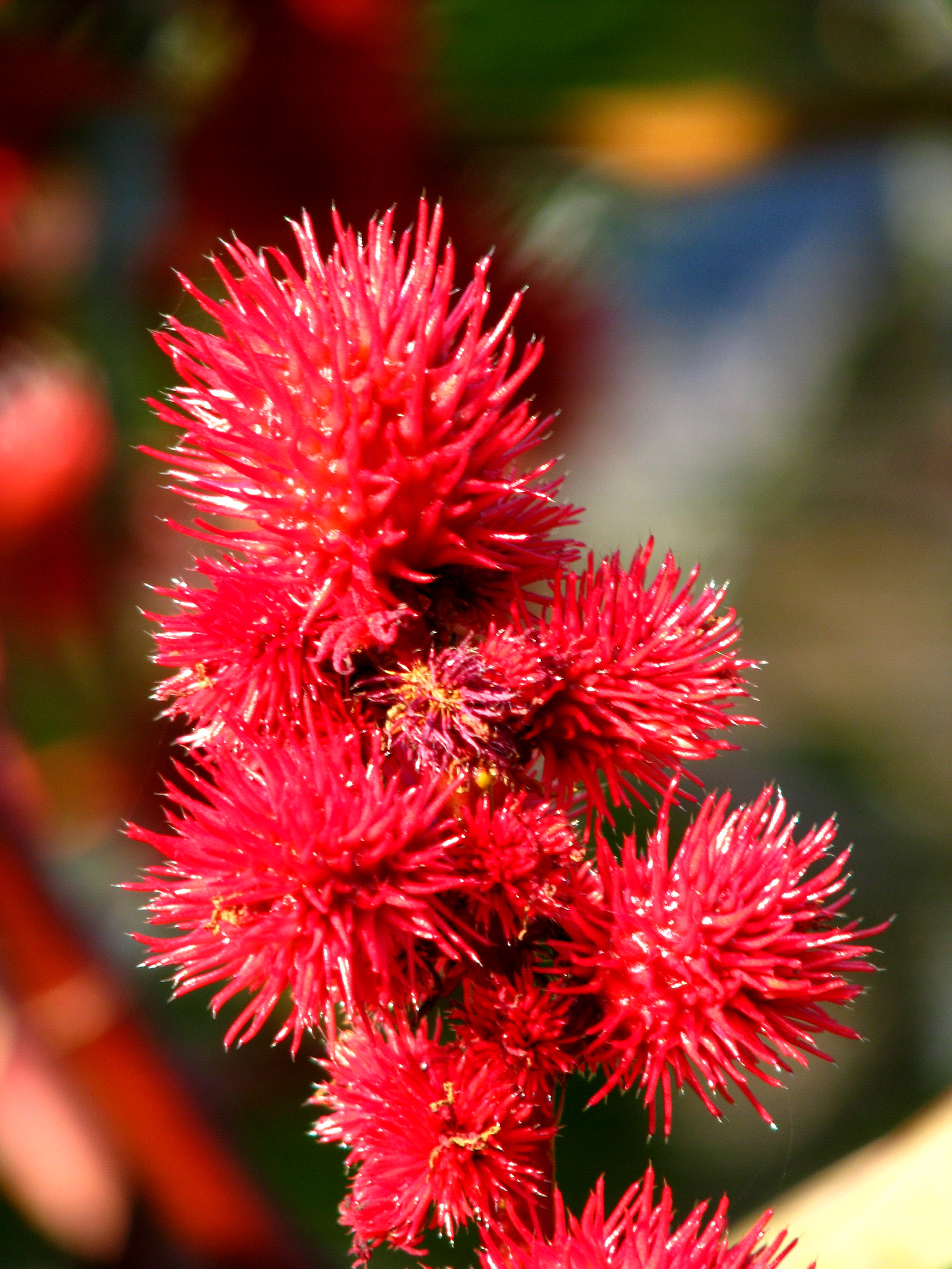 Zürich : Ricinus communis, Botanical Garden «zur Katz», 'Völkerkundeseum' (Museum of Ethnology, University of Zürich).